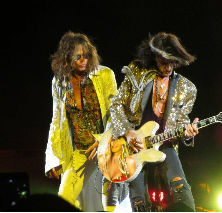 Steven Tyler and Joe Perry performing at the Nassau Colliseum on July 1, 2012